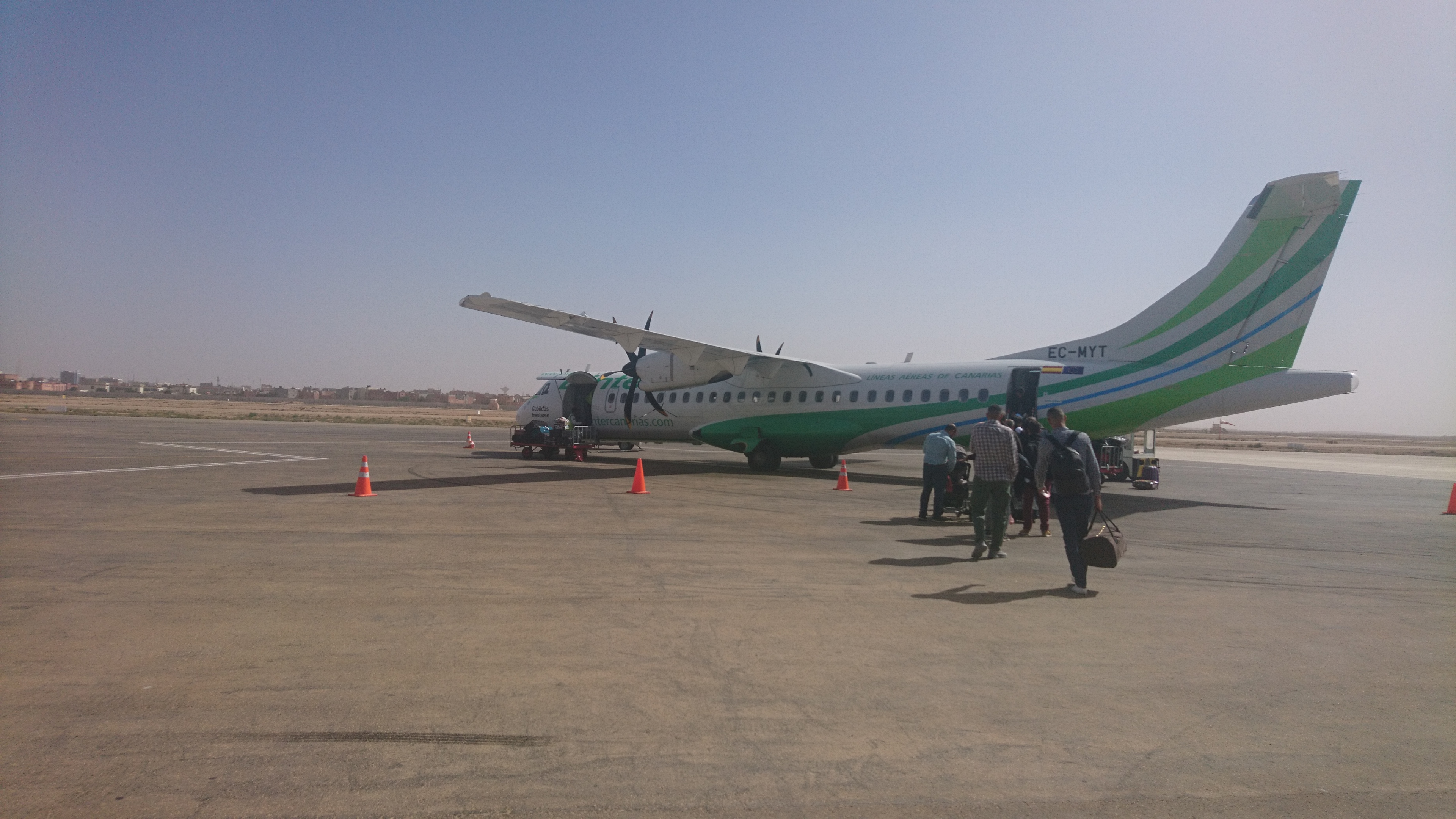 Binter Canarias in El Ayun Airport